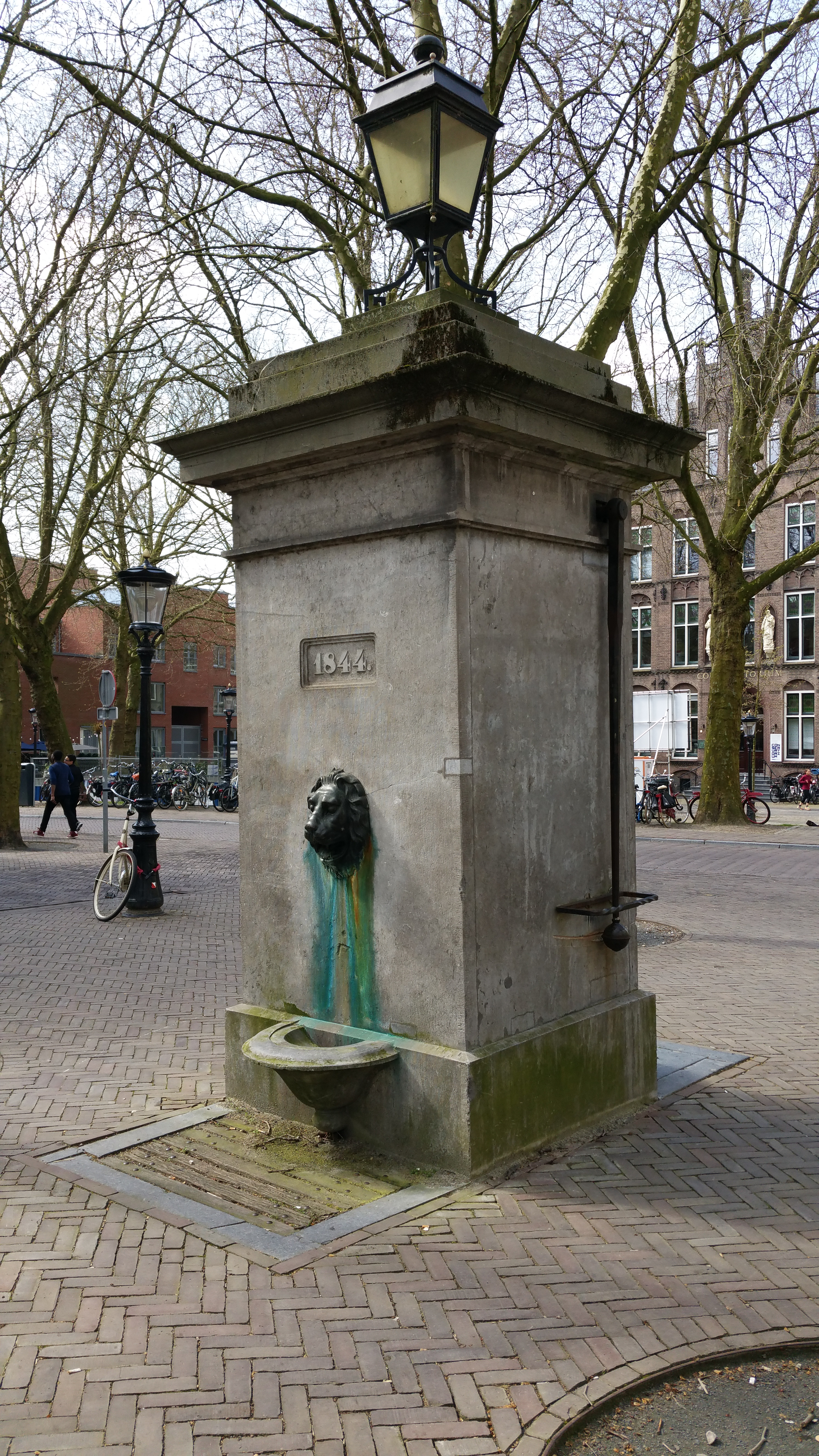 The Mariapomp, a public well on the Mariaplaats, Utrecht, The Netherlands